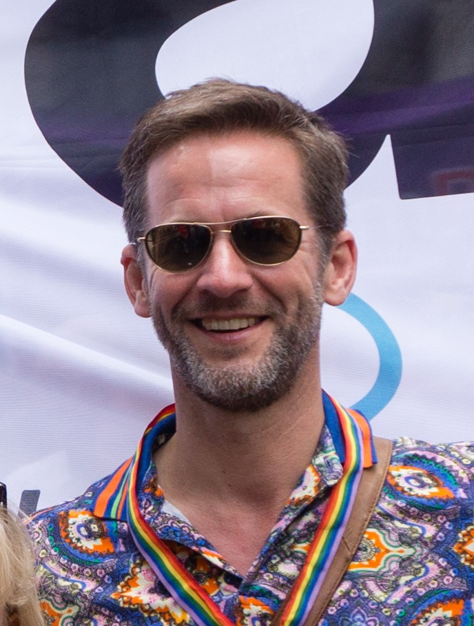 Richard Nicholas Heaton, Companion of the Most Honourable Order of the Bath